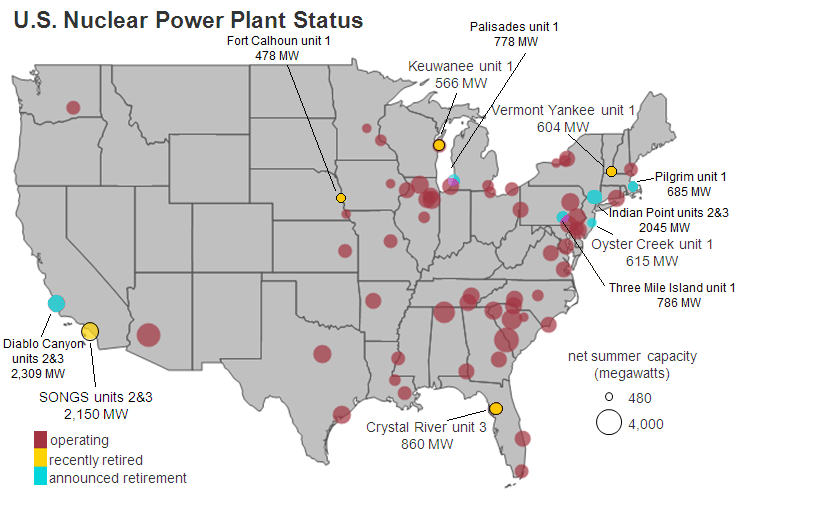 US nuclear power plant status, 2018